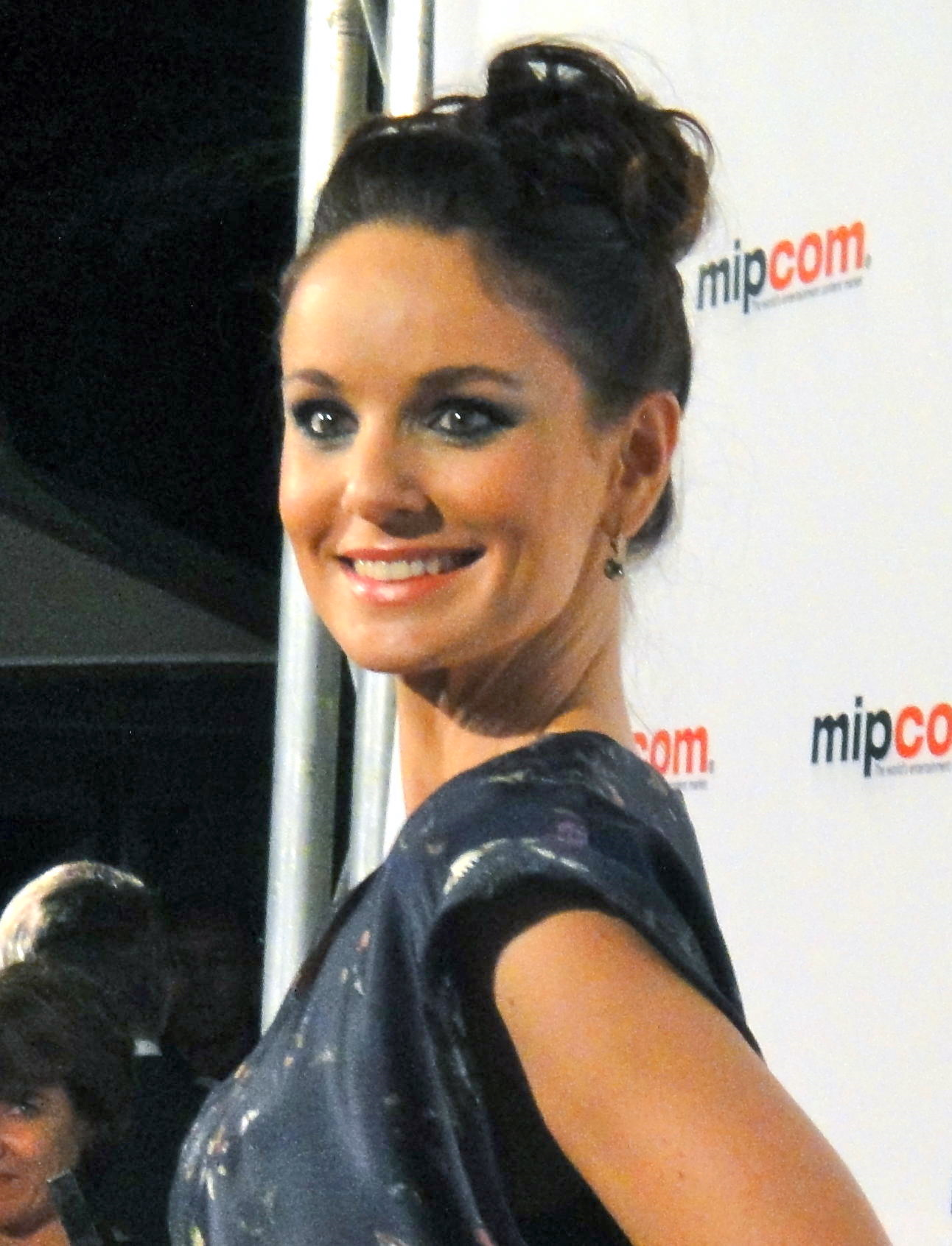 Sarah Wayne Callies at the MIPCOM 2010 Opening Night.